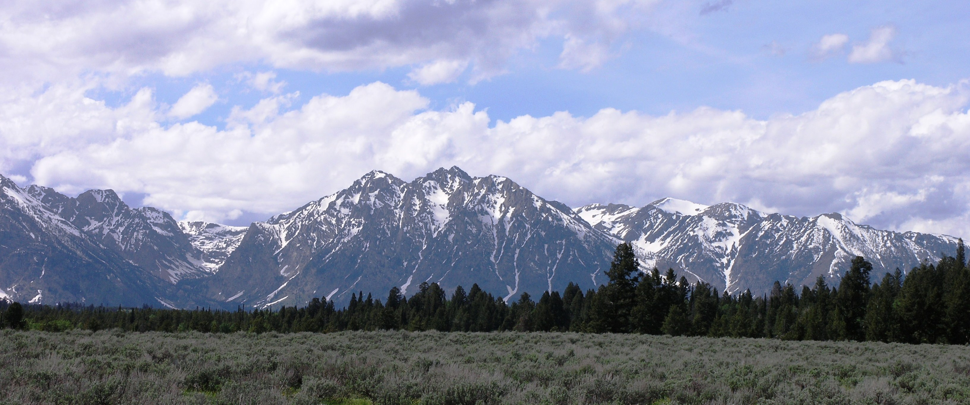 Photo in or around Grand Teton National Park